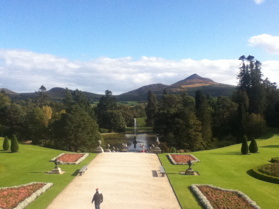 Powerscourt Estate